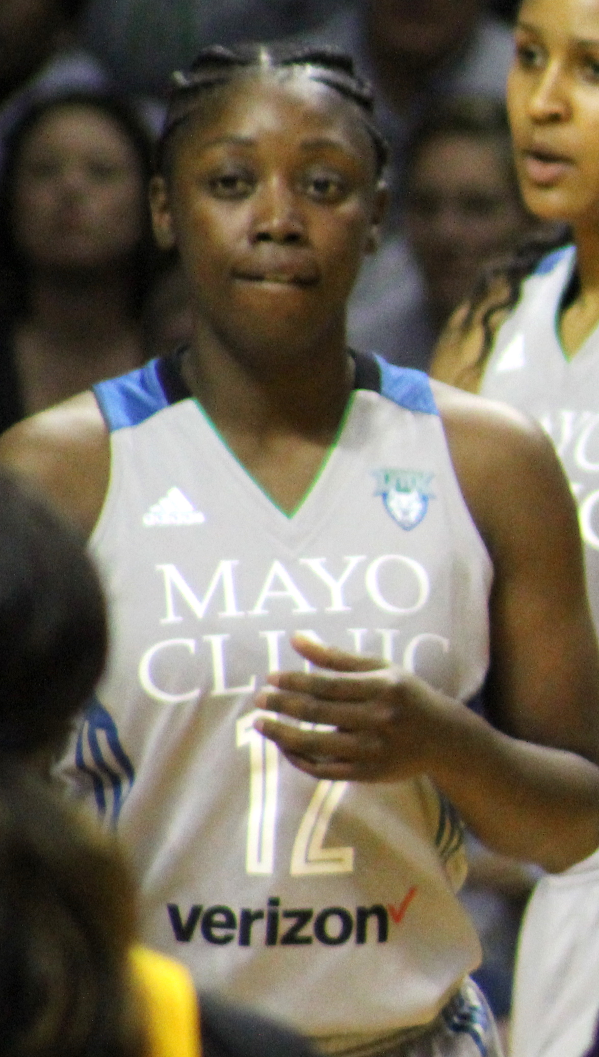 Alexis Jones of the Minnesota Lynx during the 2017 WNBA Finals